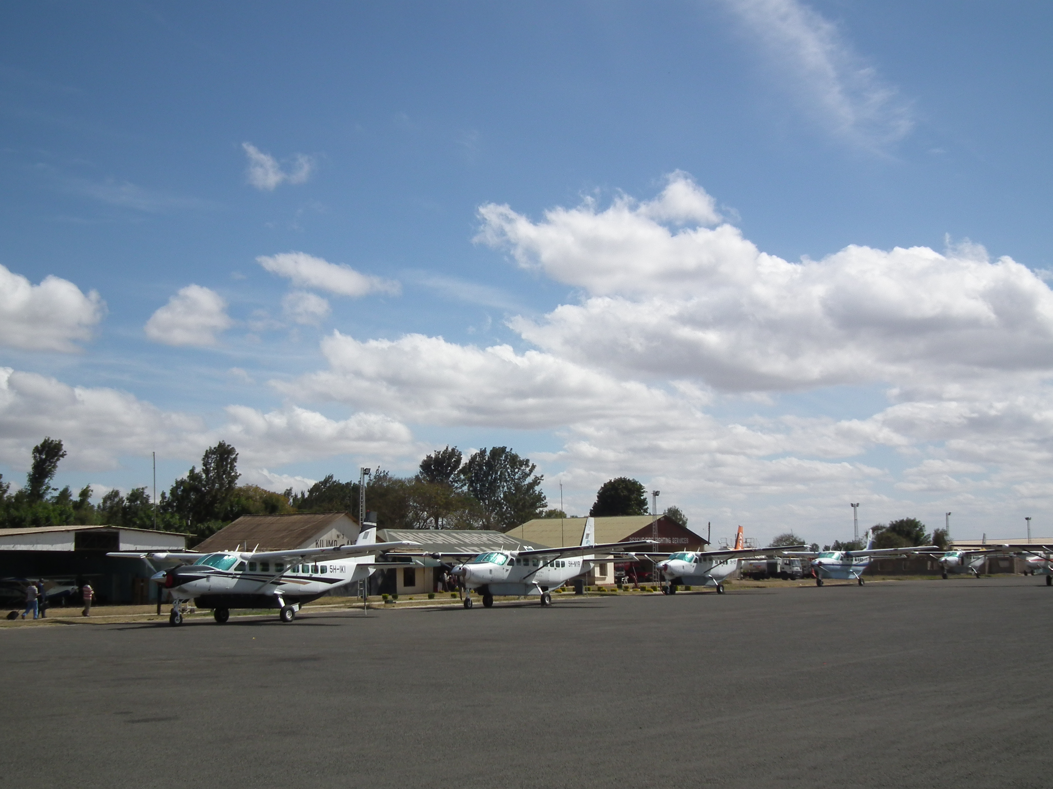 Cessna 208 Aircraft at Arusha Airport, Tanzania.